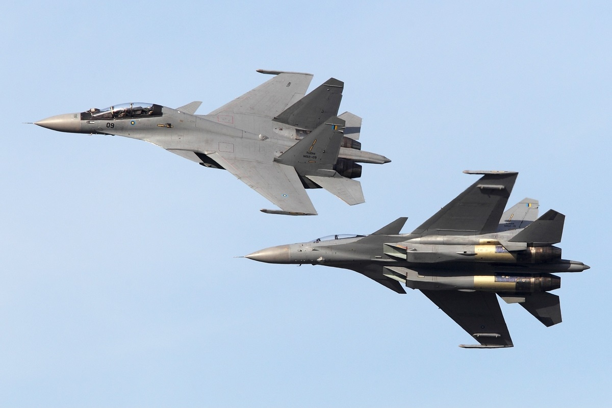 su30mkm flying at lima two